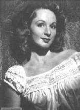 Pin-up photo of Elaine Shepard for the Sep. 14, 1945 issue of Yank, the Army Weekly, a weekly U.S. Army magazine fully staffed by enlisted men.